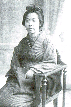 Taka Isoda, a famous mistress of the tea-house Daitomo, where many literary men gathered, in Gion, Kyoto, Japan